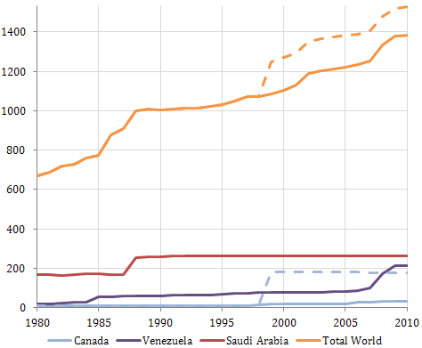 Proved reserves in billion barrels with some of the major countries. The dashed lines are including the Canadian oil sands.